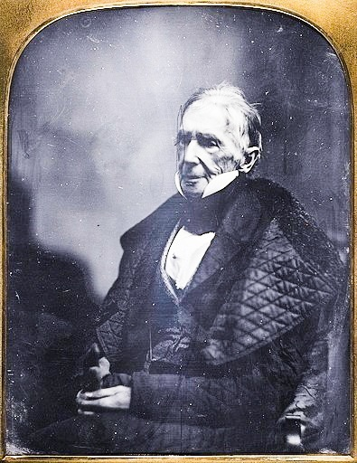 Daguerreotype of Boston surgeon John Collins Warren, circa 1855. Image courtesy of the Harvard University Library.